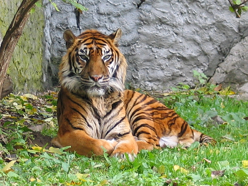 Panthera tigris sumatran subspecies.